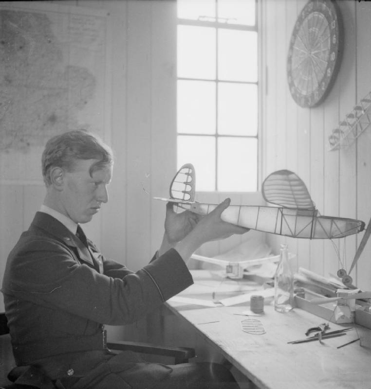 Royal Air Force 1939-1945- Fighter Command Pilot Officer James 'Ginger' Lacey DFM and Bar, hard at work on a model aeroplane in No 501 Squadron's dispersal hut at Colerne, 30 May 1941.